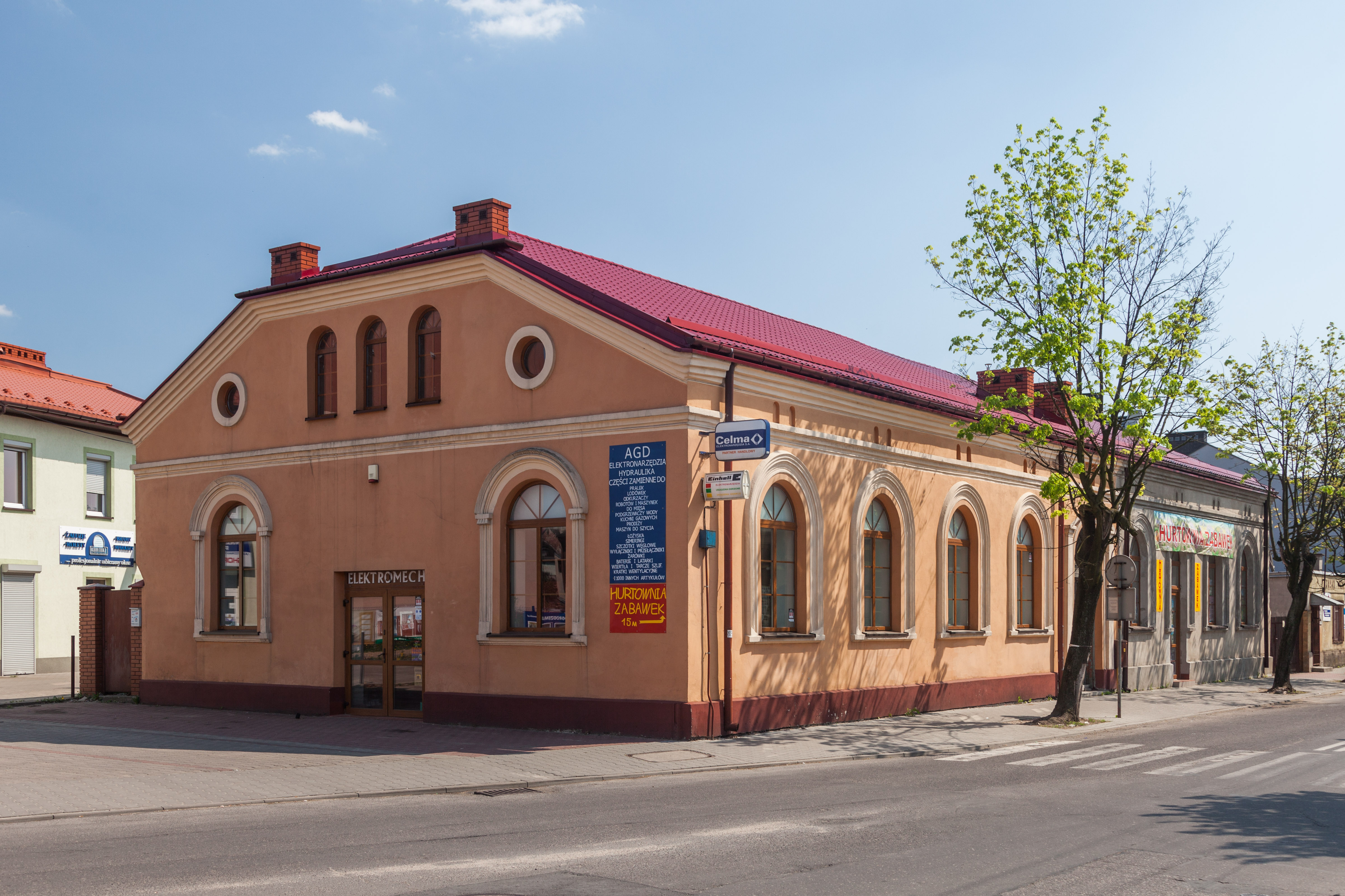 Former Jewish House of prayer in Skierniewice, Poland.